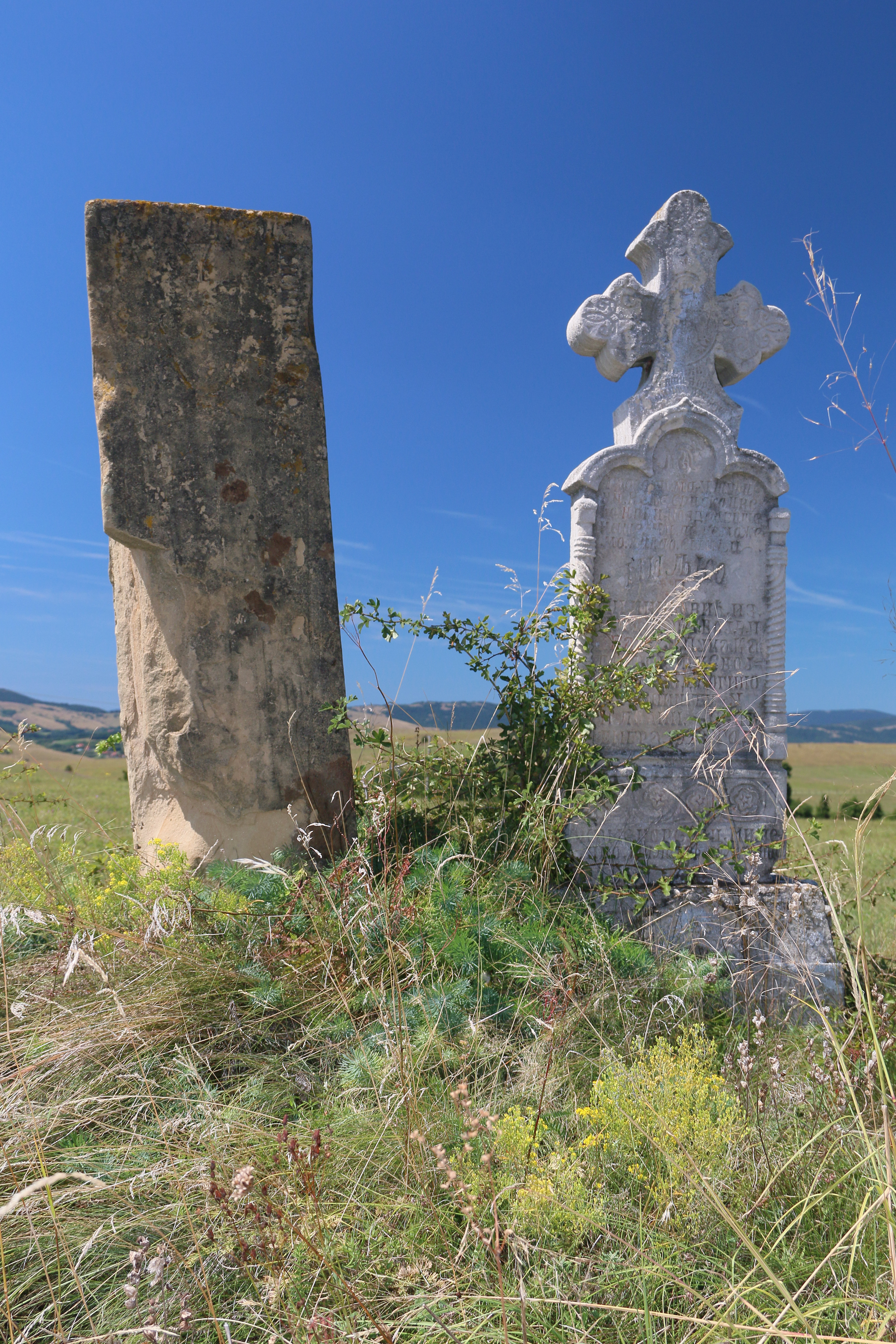 Old gravestones in the village of Bogdanica (the municipality of Gornji Milanovac), Serbia.